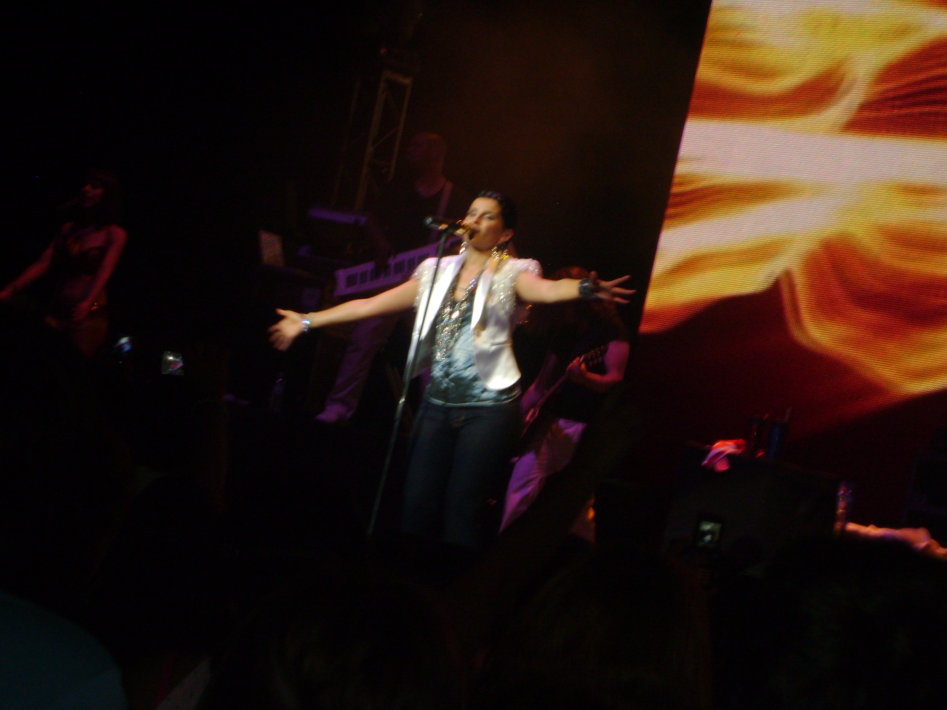 Picture took at the Mi Plan Tour concert, first date.